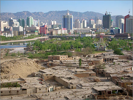 Michael D. Manning, The Opposite End of China , April 2007